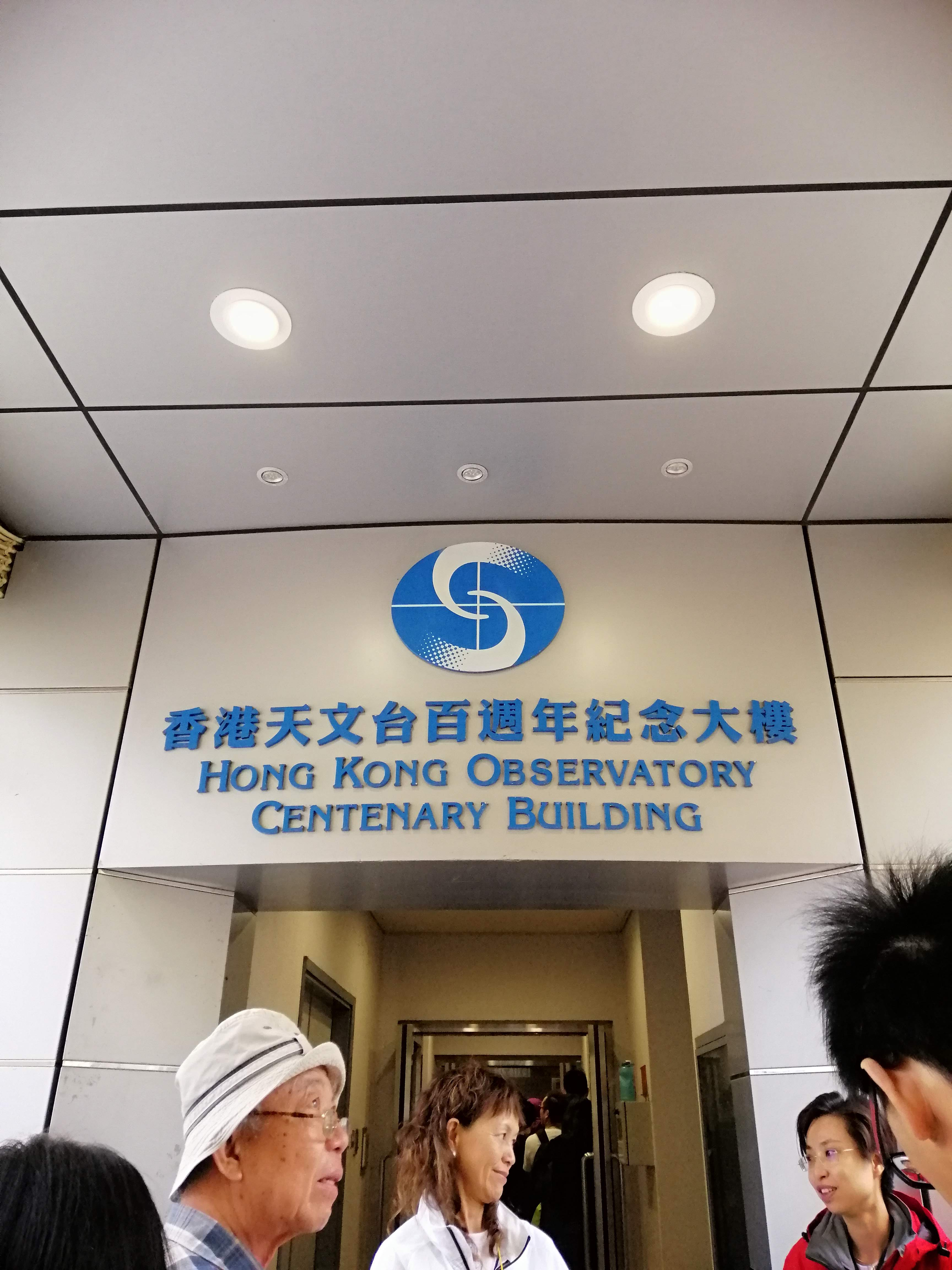 hko centenary building_1